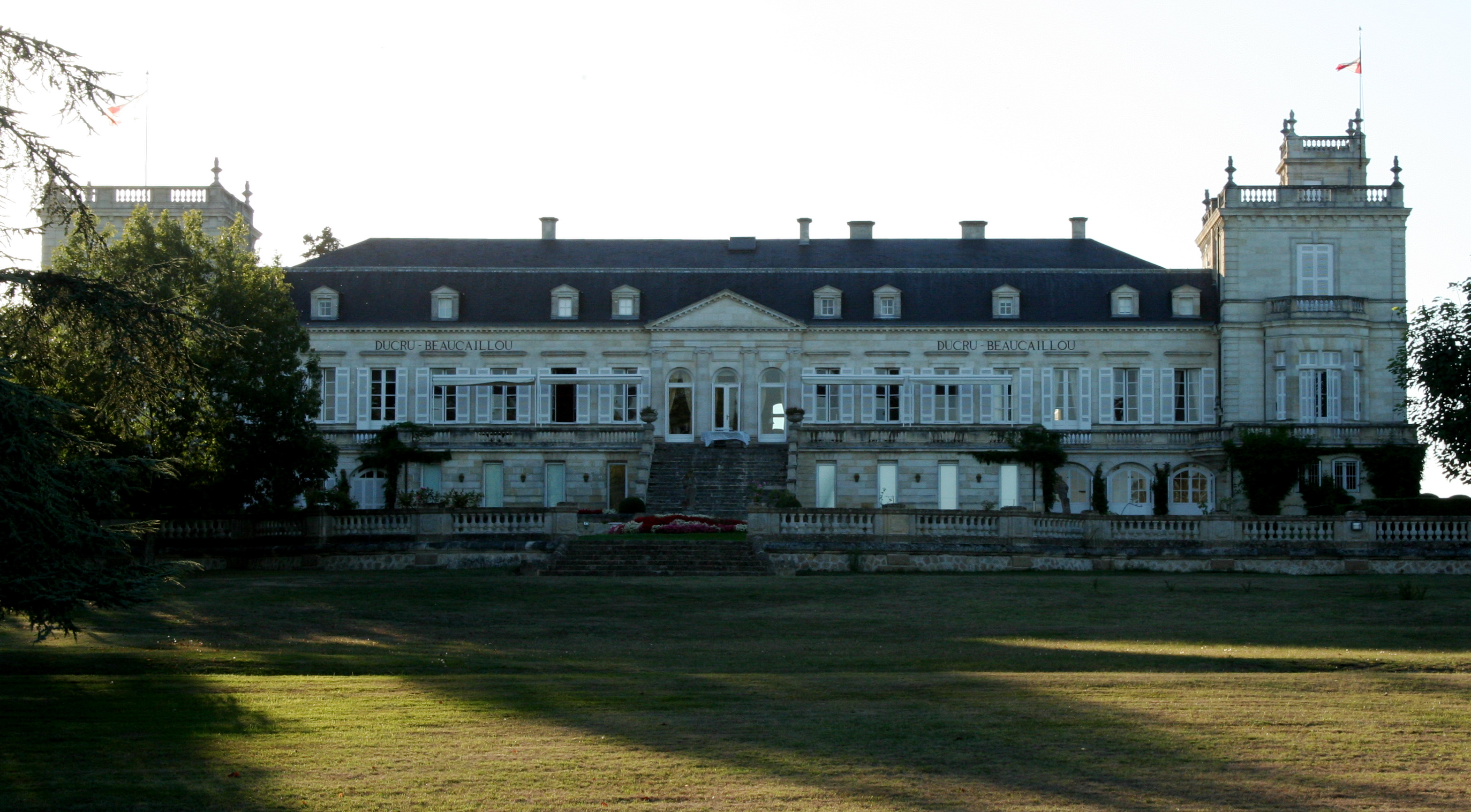 French winery in Bordeaux